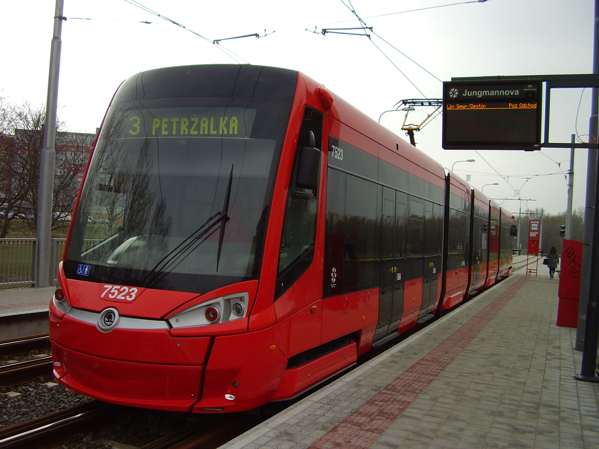 Final tram station, Jungmannova street, Petržalka, Bratislava, Slovakia